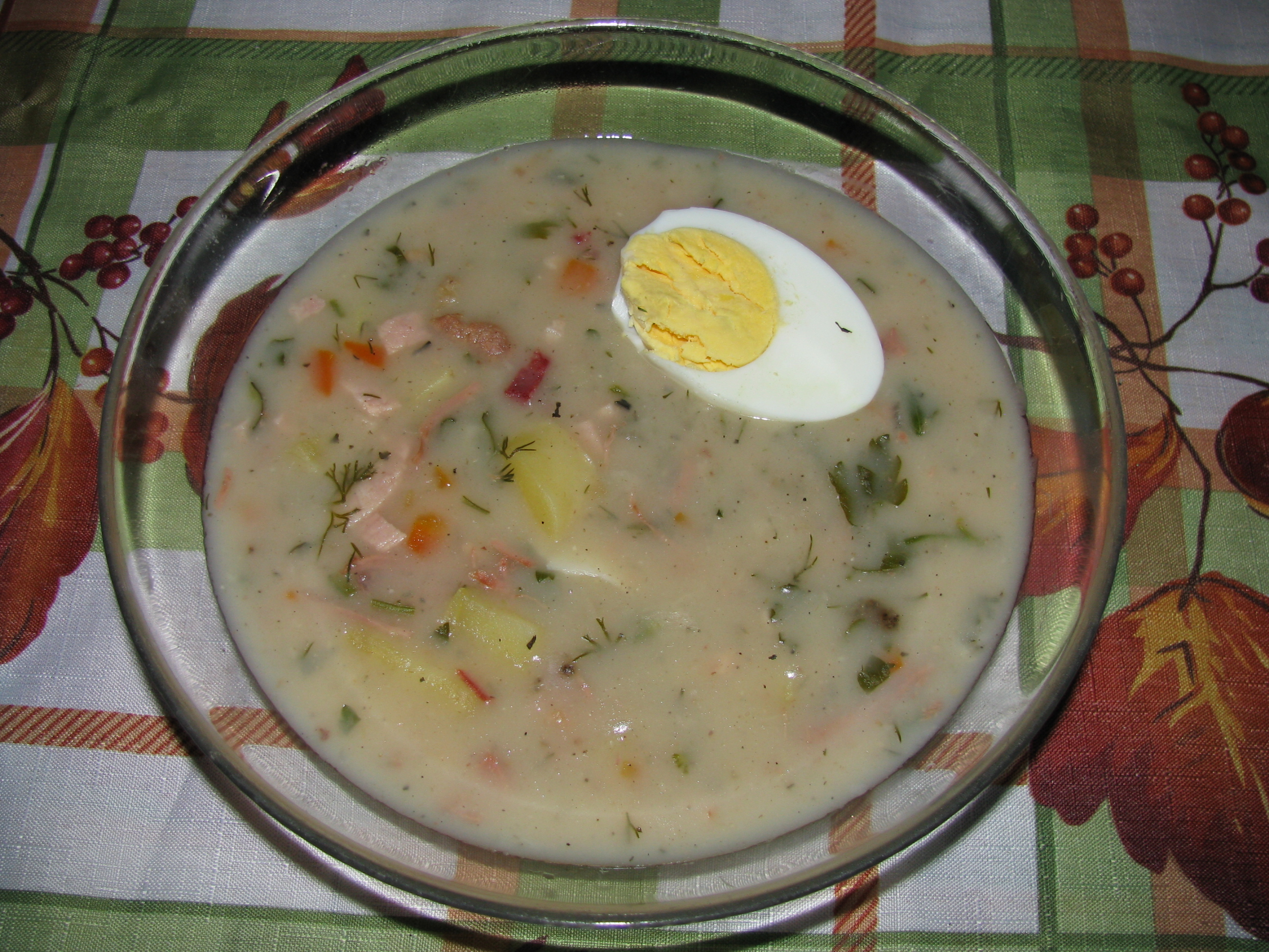 Belarussian and Polish Soup «Zhur»